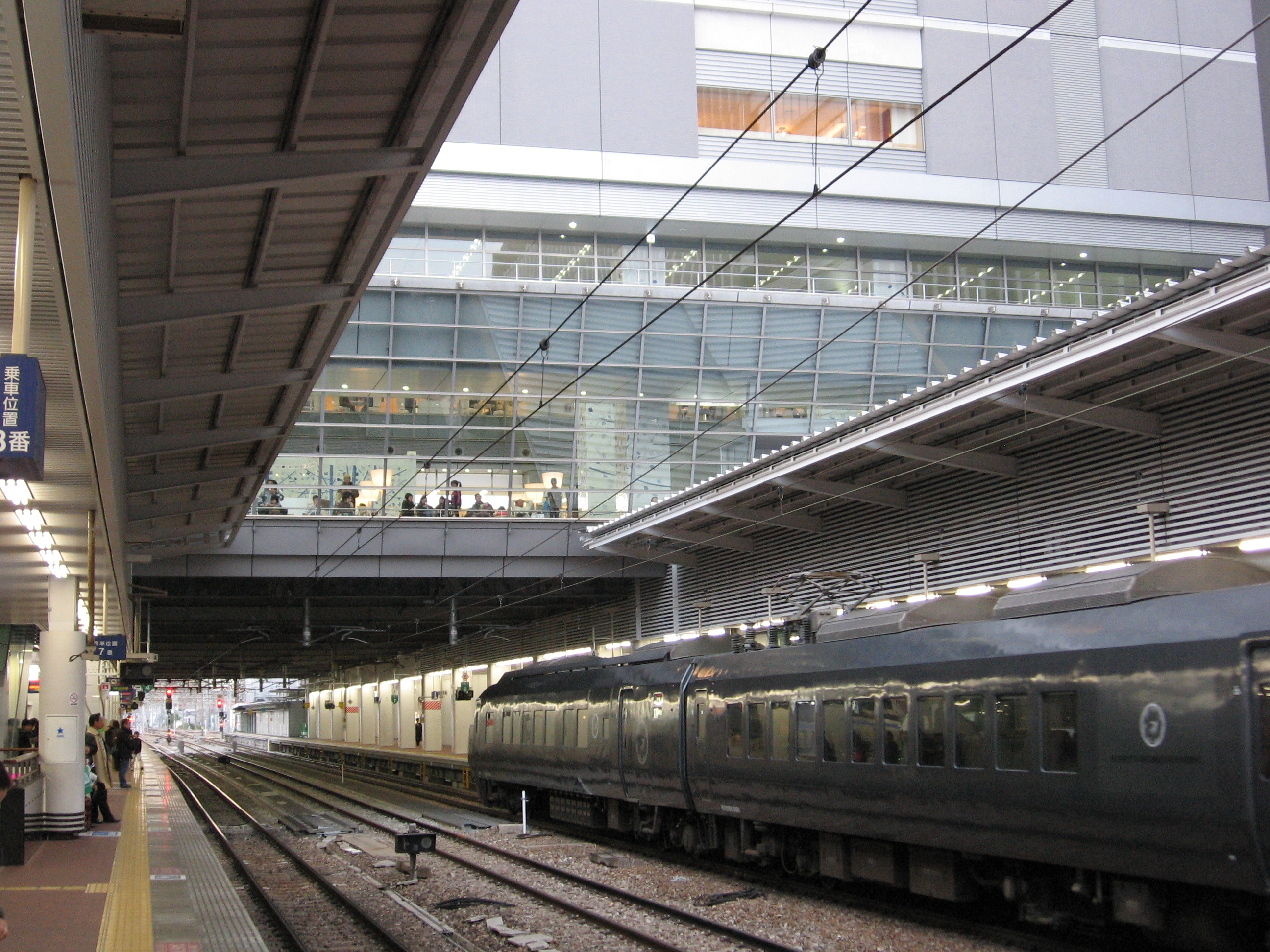 Railway platform and building and its viewing halls over it at Hakata station, Fukuoka, Japan.